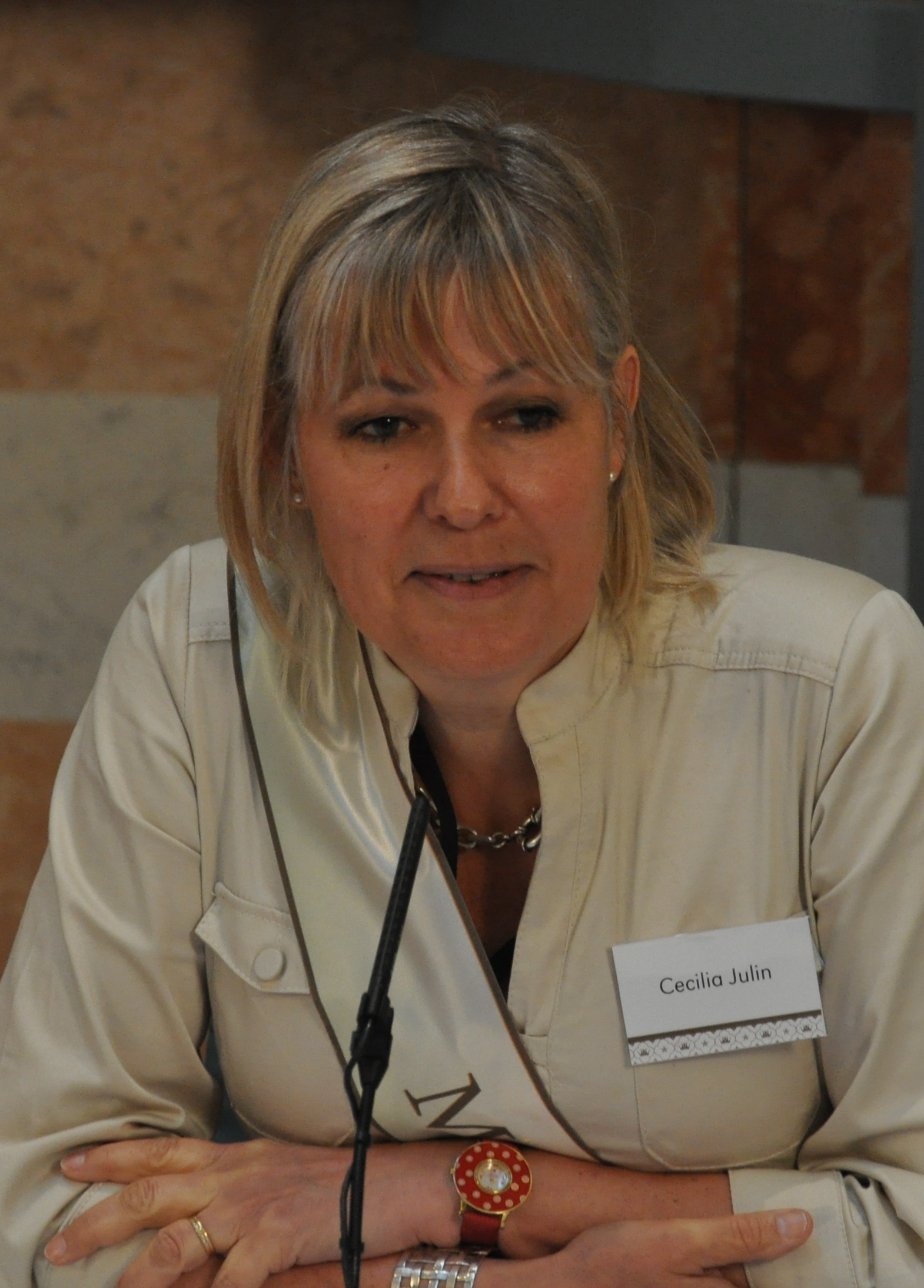 Press briefing at the Rosenbad Conference Centre: Cecilia Julin